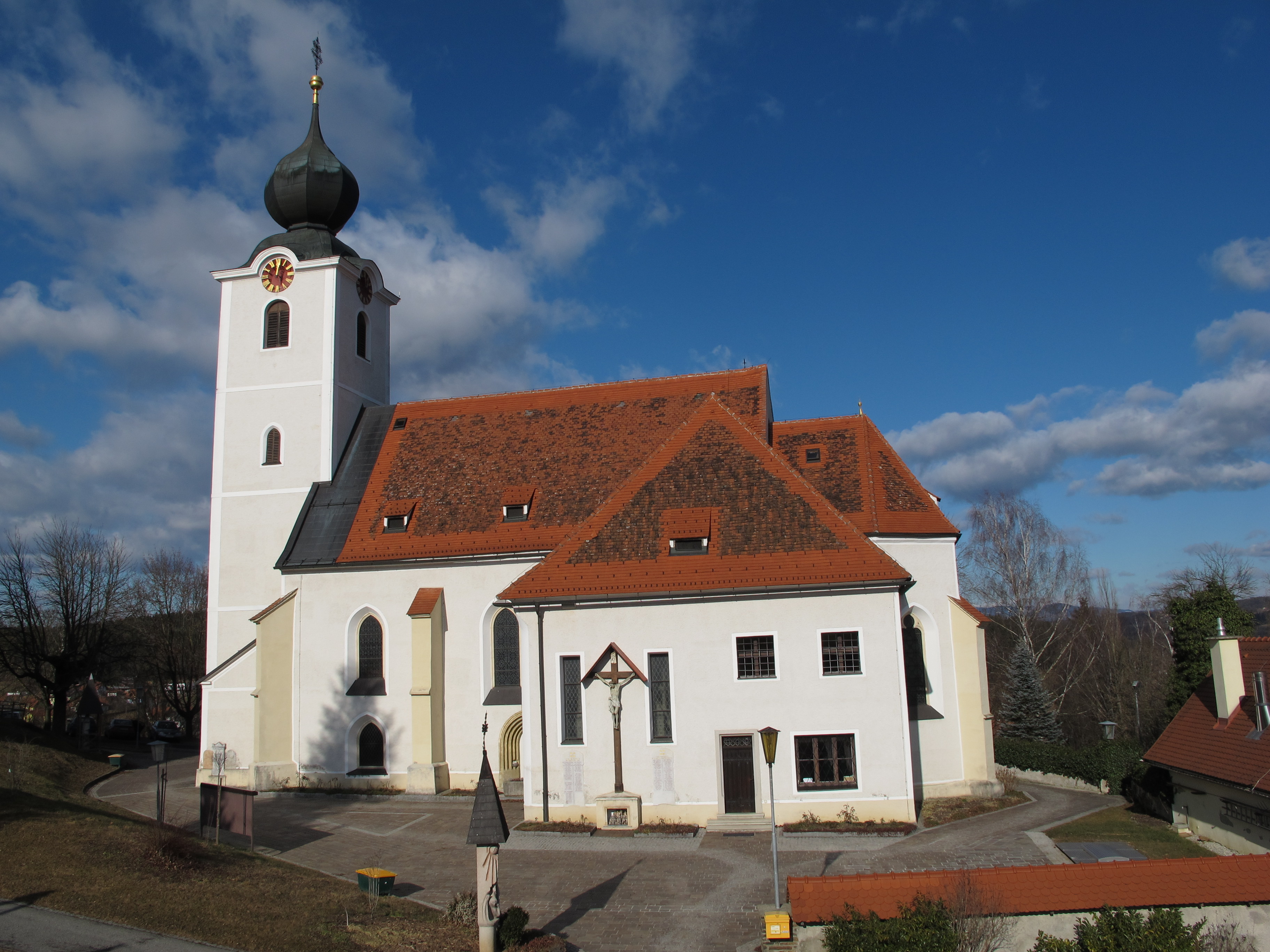 Pfarrkirche Sankt Margarethen an der Raab